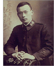 YAMAMURO Gunpei. Salvation Army.